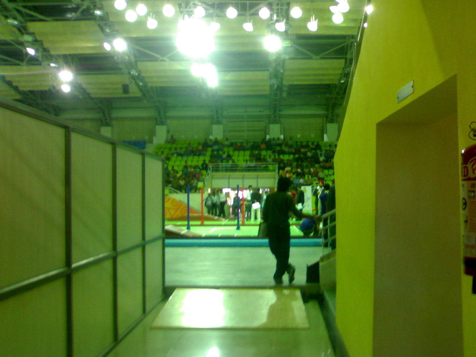 On the way to arena.. to fight!!